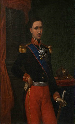 Portrait of Francis II of the Two Sicilies (1836-1894)